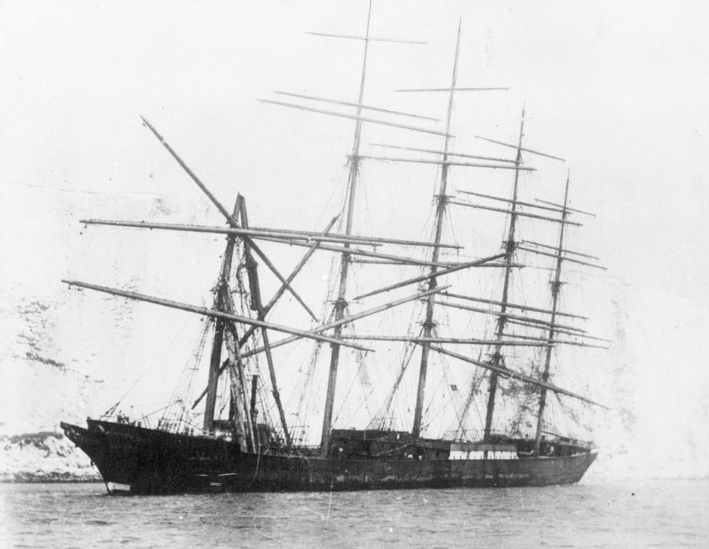 Full rigged five mast ship „Preussen“ ashore near Dover after collision with a Cross Channel steamer, 1910. Became total wreck.